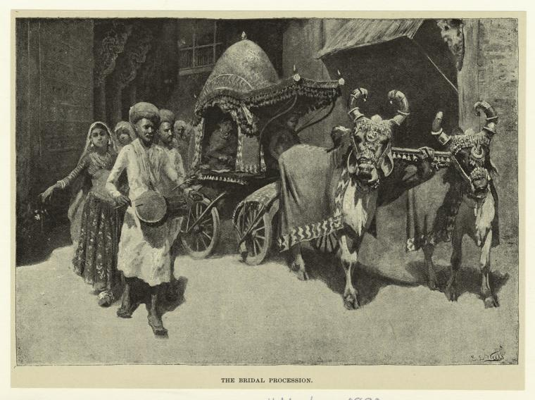 A Hindu bridal procession in the 1890s.